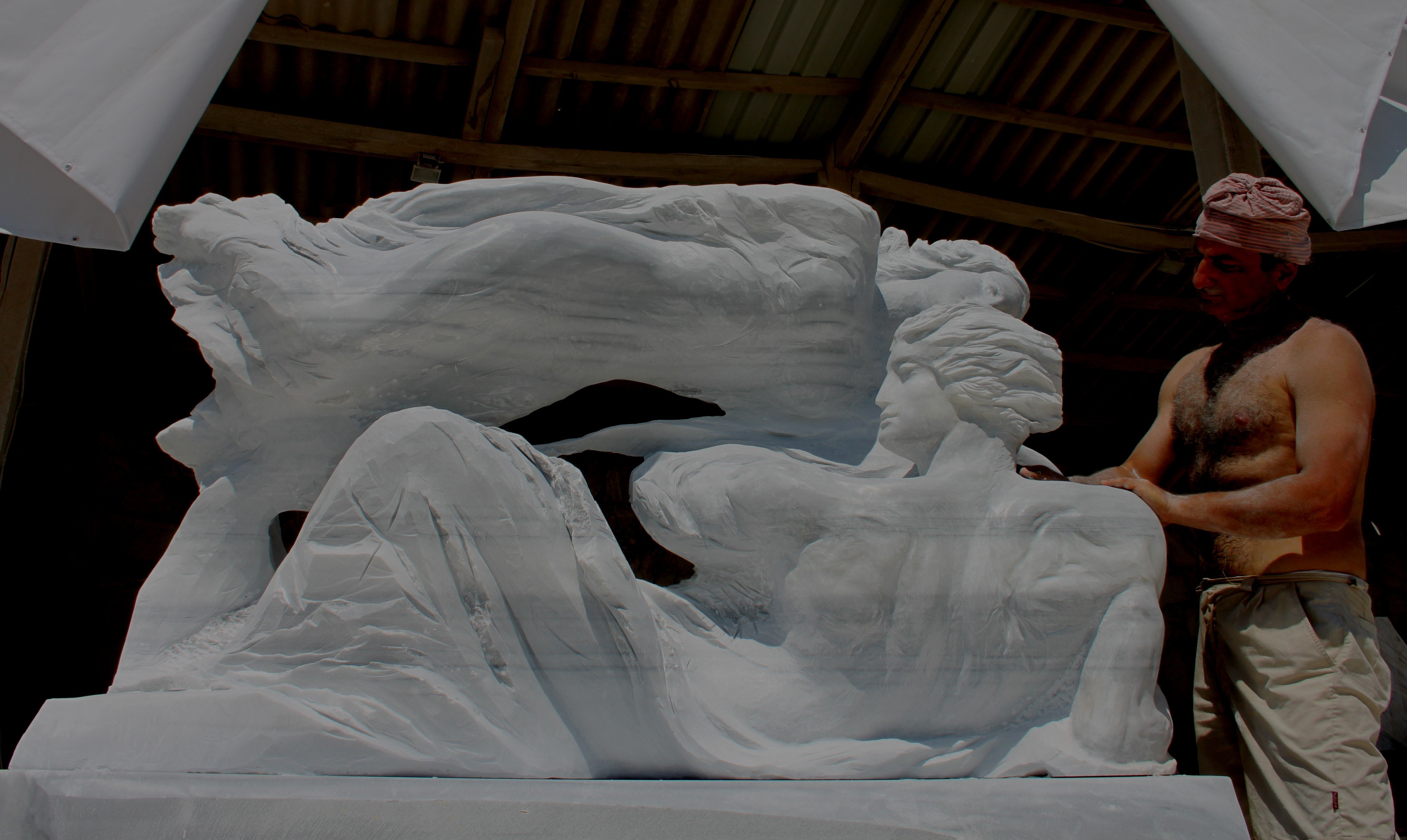 H. Tokmajian's works